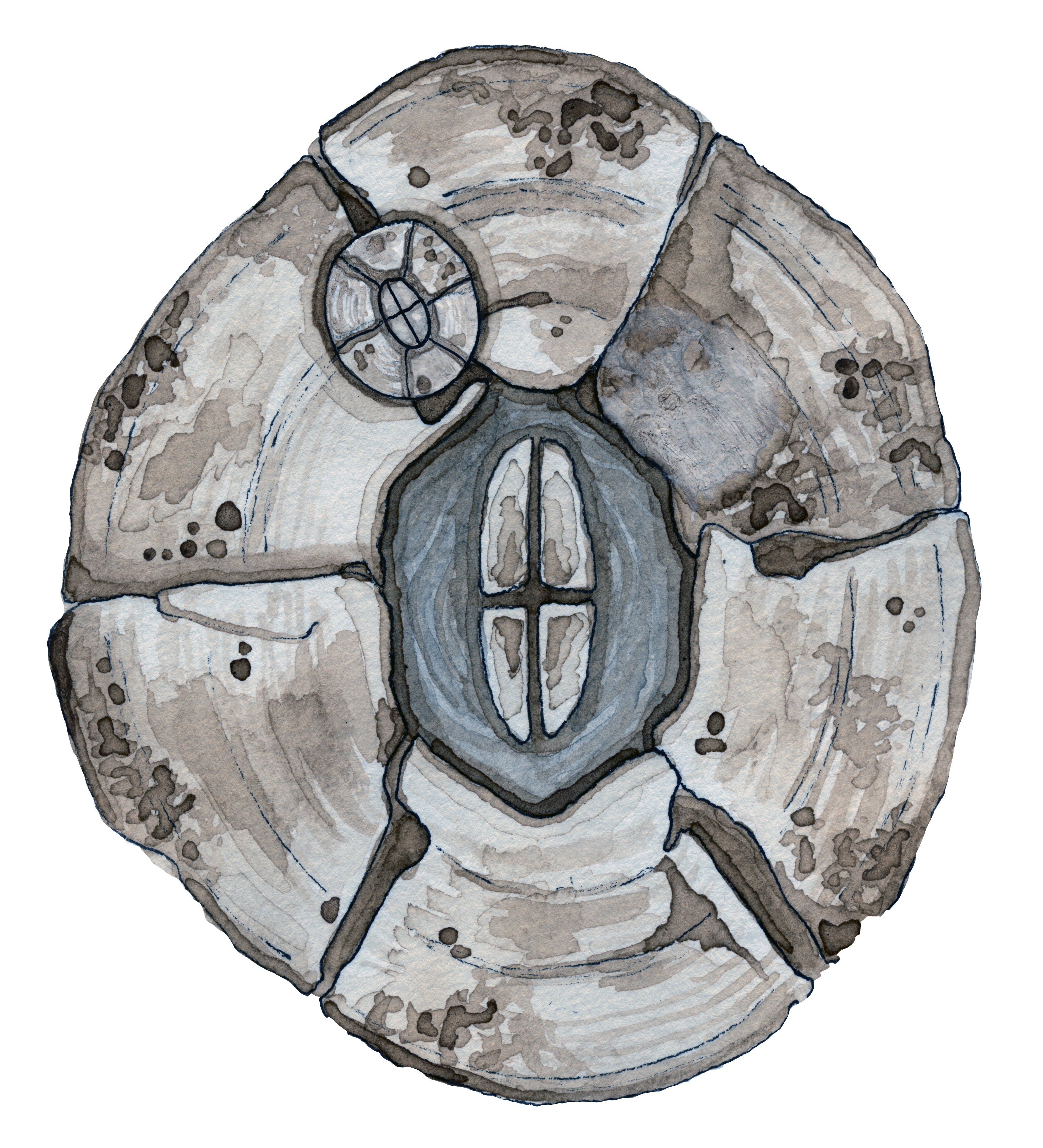 Illustration of Chelonibia testudinaria hermaphrodite with male attached, top view. Illustrated from direct observation. Materials used: espresso, ink, micron.